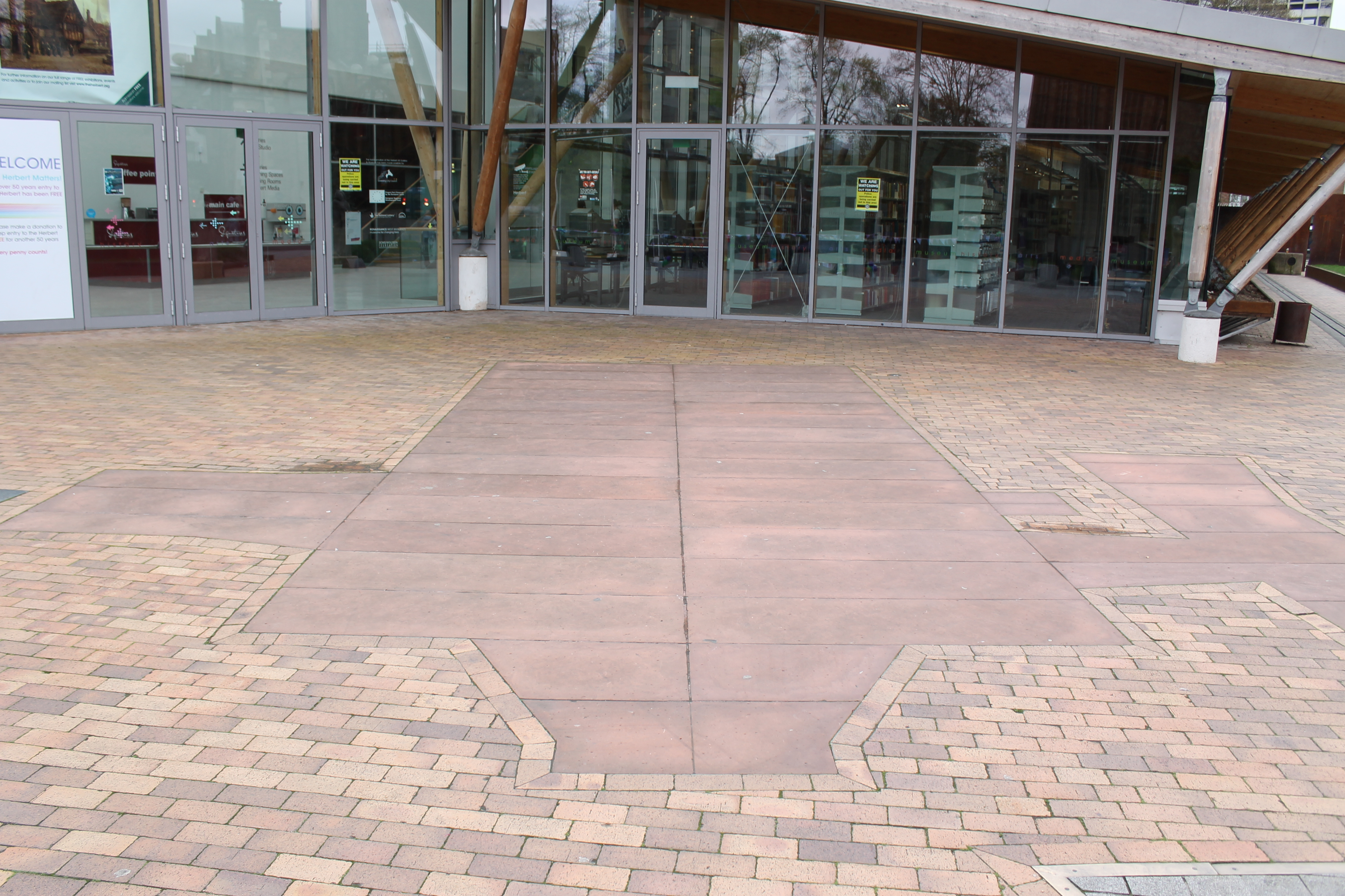 The outline of the Bayley Lane Medieval Undercroft is shown on the ground outside Herbert Art Gallery and Museum, Coventry.